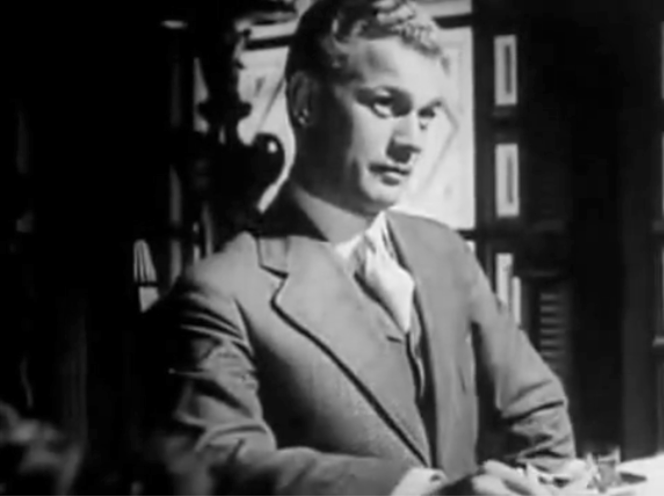 Screenshot of Joseph Cotten from the trailer for the film The Magnificent Ambersons.